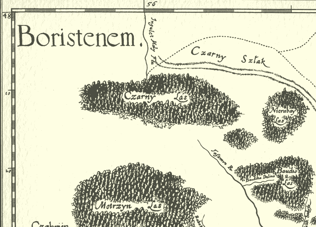 Black Forest on Beauplan map